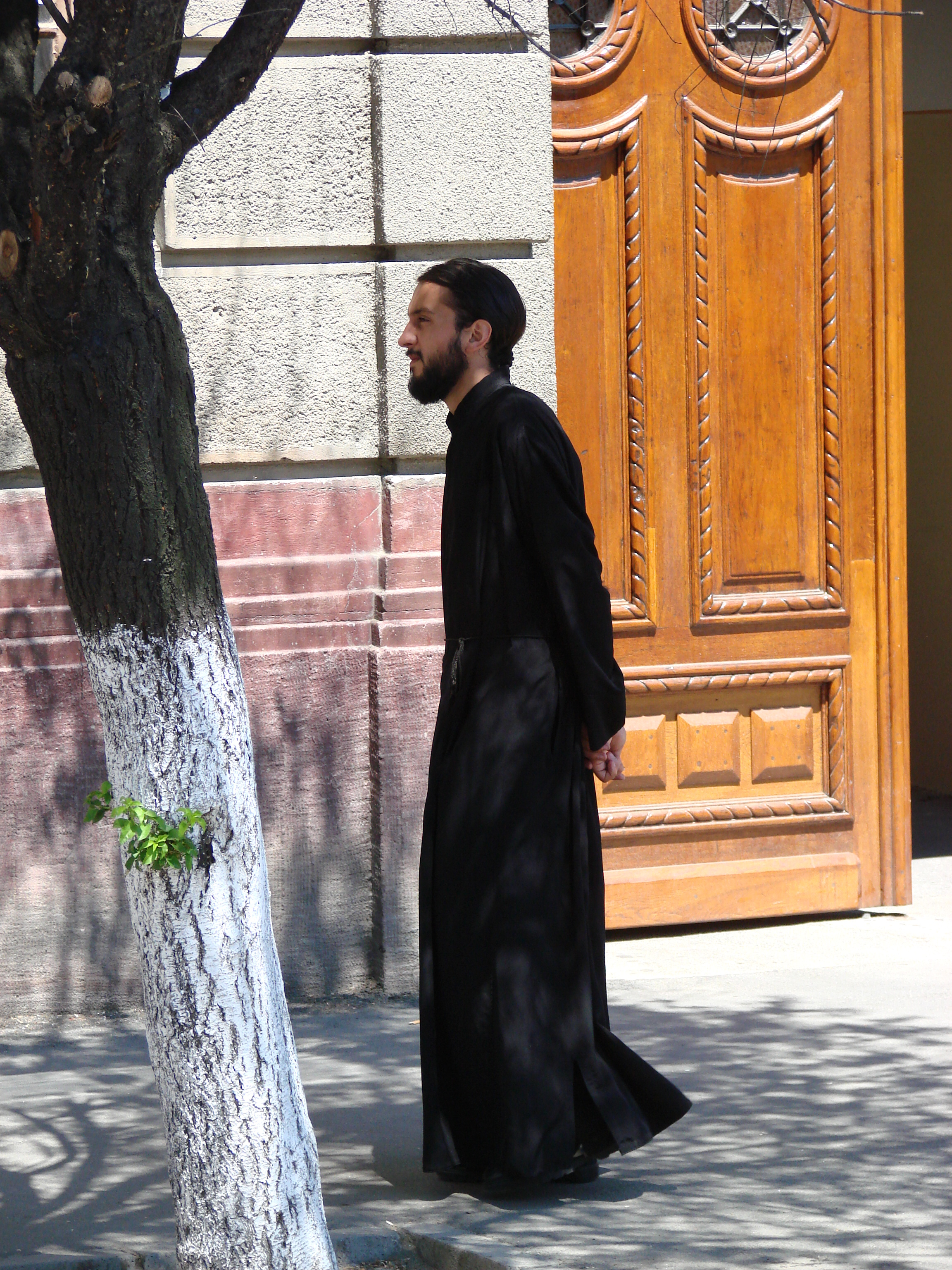 A priest strolls the street in Sibiu, Romania. June 2007.